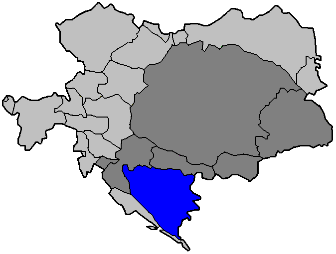 Map of Austria-Hungary